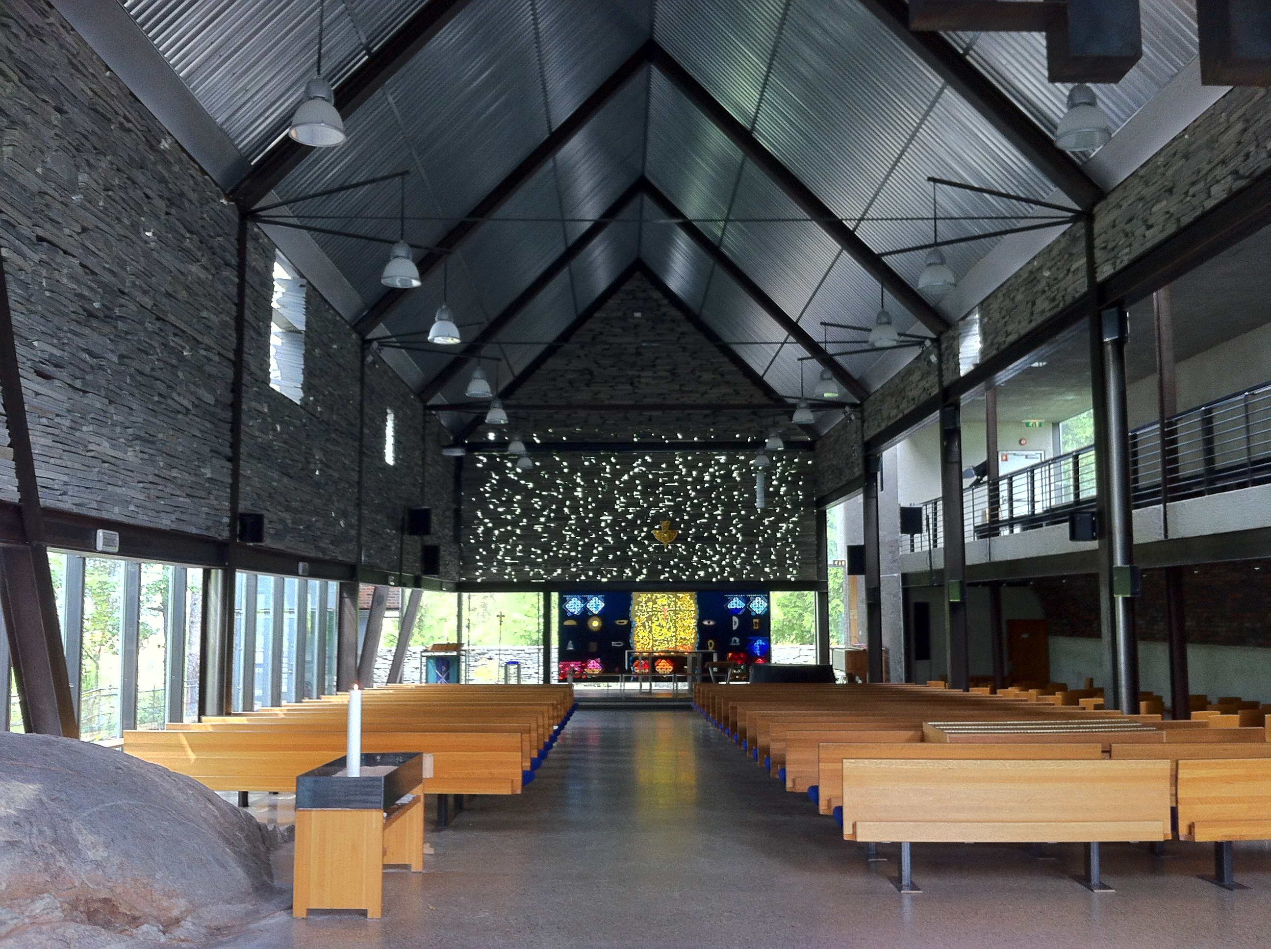 Mortensrud Church